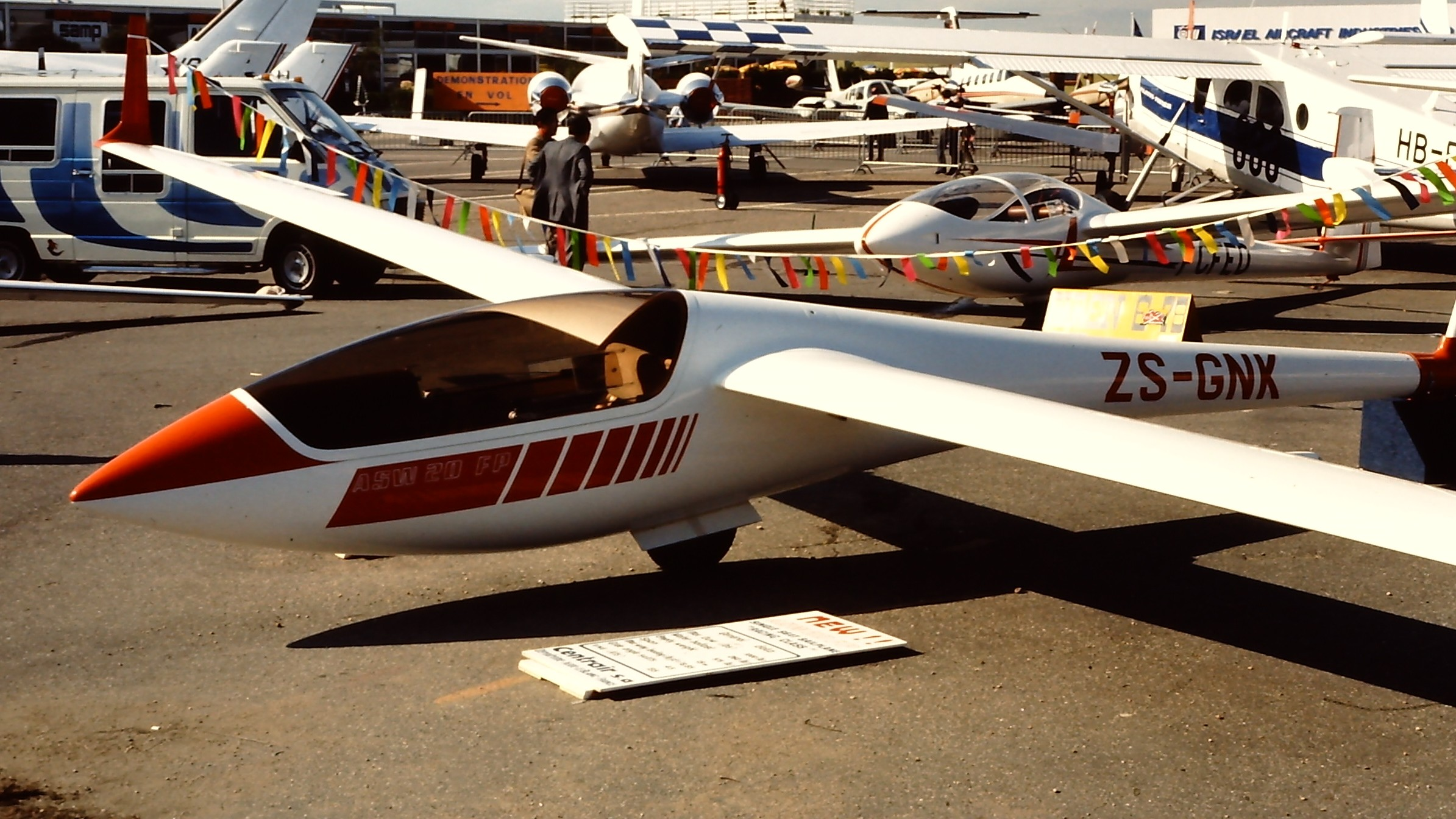 ZS-GNK a Centrair ASW 20 FP glider on display at the 1981 Paris Air Show